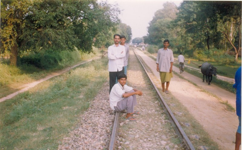 The Broad gauze rail track run straight for around 7 K Ms.